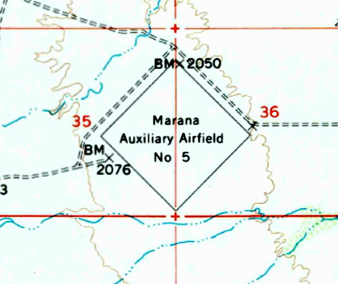 1956 United States Geological Survey topo map depicted Marana Auxiliary Airfield No. 5 as an diamond-shaped outline now El Tiro Gliderport